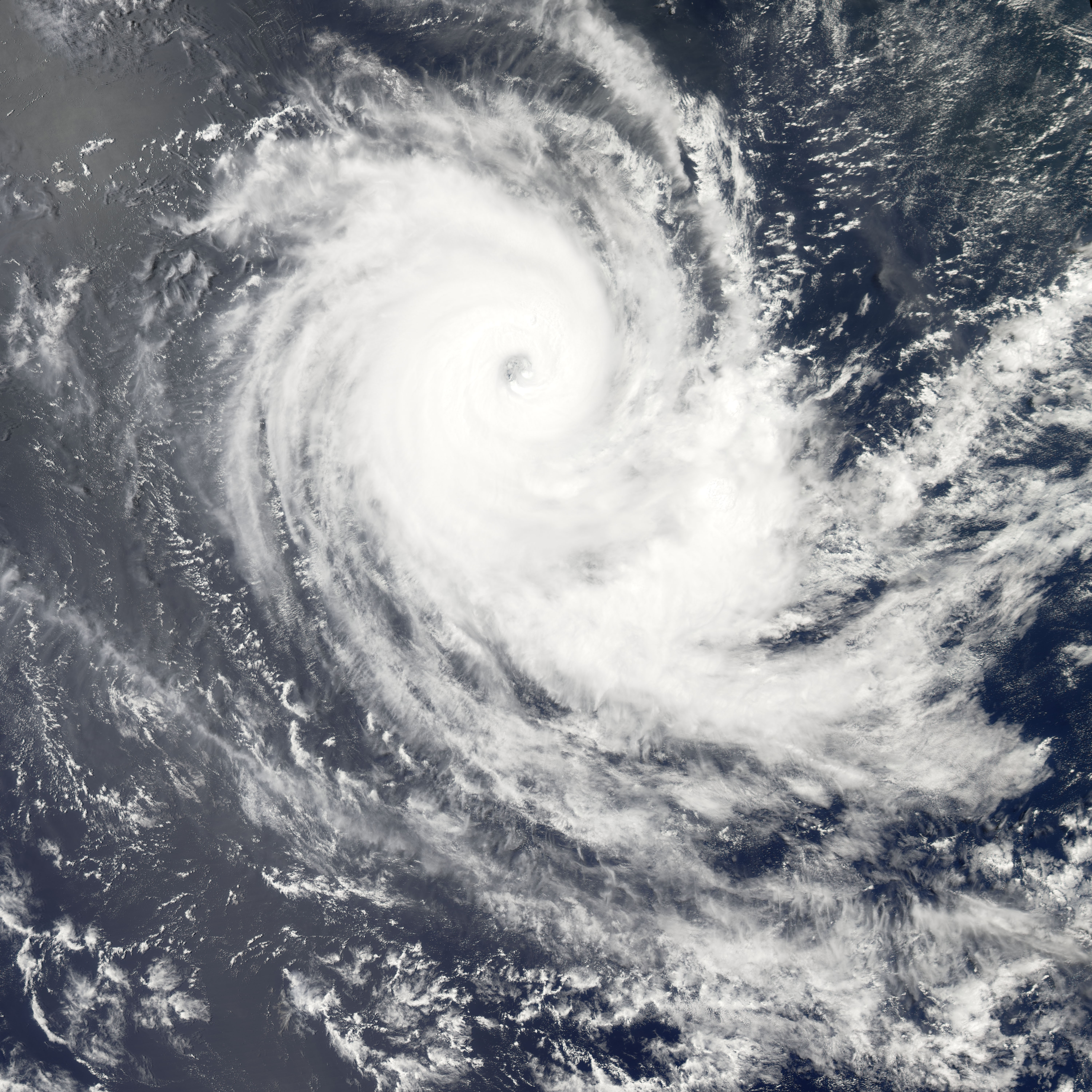 Tropical Cyclone Carina appears as a tightly wound spiral in the Indian Ocean in this satellite view of the storm, obtained by the Moderate Resolution Imaging Spectroradiometer (MODIS) instrument on NASA’s Aqua satellite on February 27, 2006. Carina had become an organized storm system four days earlier, and built rapidly into a powerful cyclone. By the time MODIS obtained this observation of Carina, peak winds were blowing at 175 kilometers per hour (110 miles per hour). However, the tropical cyclone was moving into the southern Indian Ocean well away from the nearest land, even the very remote Cocos Islands several hundred kilometers east.